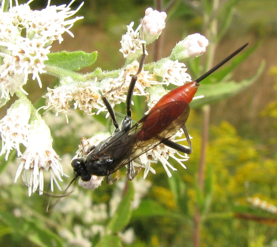 Ichneumonid wasp, Cryptus albitarsis, female on Eupatorium flowers. Horsham trail. Horsham, Montgomery County, Pennsylvania, USA.